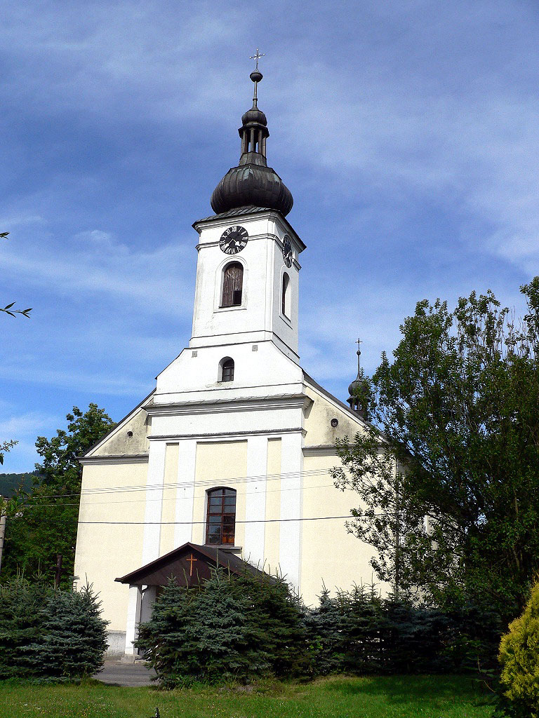 John of Nepomuk Church in Pražmo, Czech Republic